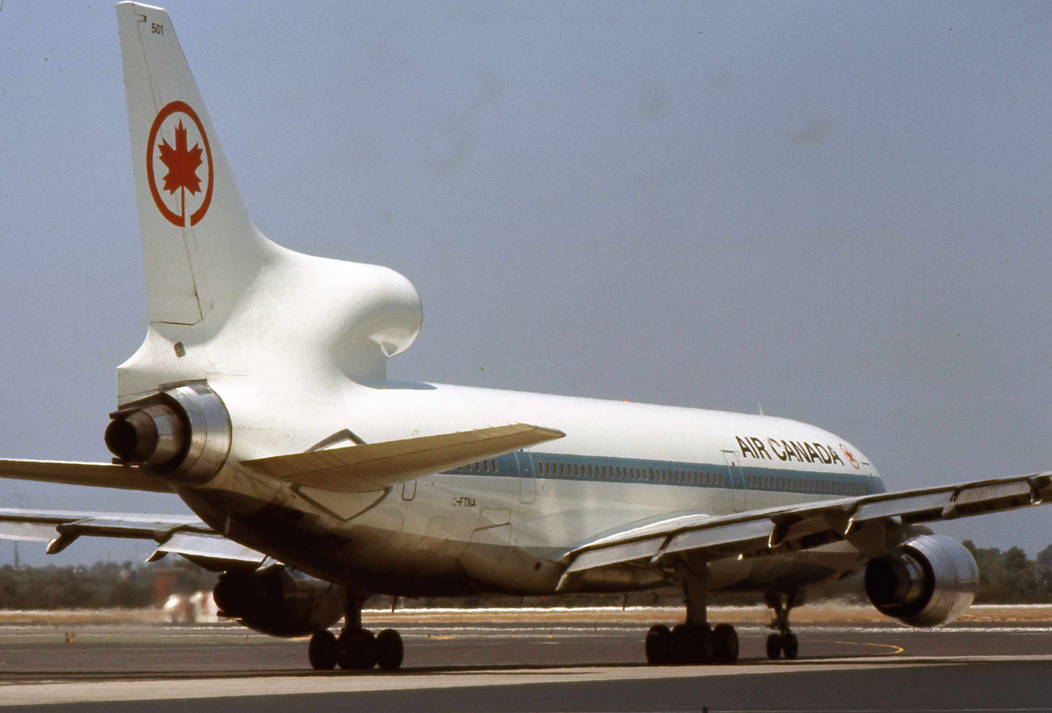 Air Canada Lockheed L-1011 TriStar C-FTNA, c/n 1019, first flight in 1972-11-18. Delivered to Eastern Air Lines in 1972-12-13 as N312EA and shared with Air Canada in hibryd colours. Leased to Air Canada from May to October every year from 1973 to 1980 and from May 1981 until June 1989 registered C-FTNA. Notice the white livery with the blue stripe along the windows line and the Air Canada red maple leaf on the fin. Delivered to Air Transat in February 1991. In 2001-07-06 was damaged by hail during a flight Lyon – Berlin, the plane returned to Lyon and stored. Here is taken at Los Angeles Airport in 1974.